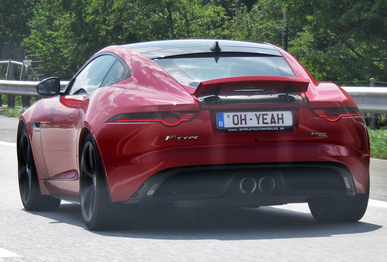 2010 Belgian personalized license plate, seen in Liechtenstein